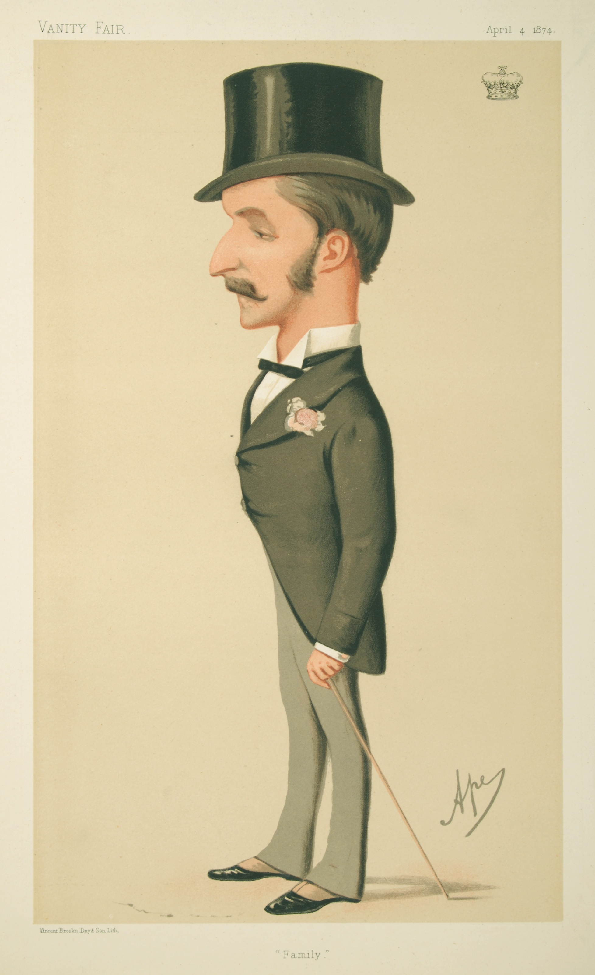 Statesmen No.166: Caricature of Henry Petty-Fitzmaurice, 5th Marquess of Lansdowne. Caption read "Family".